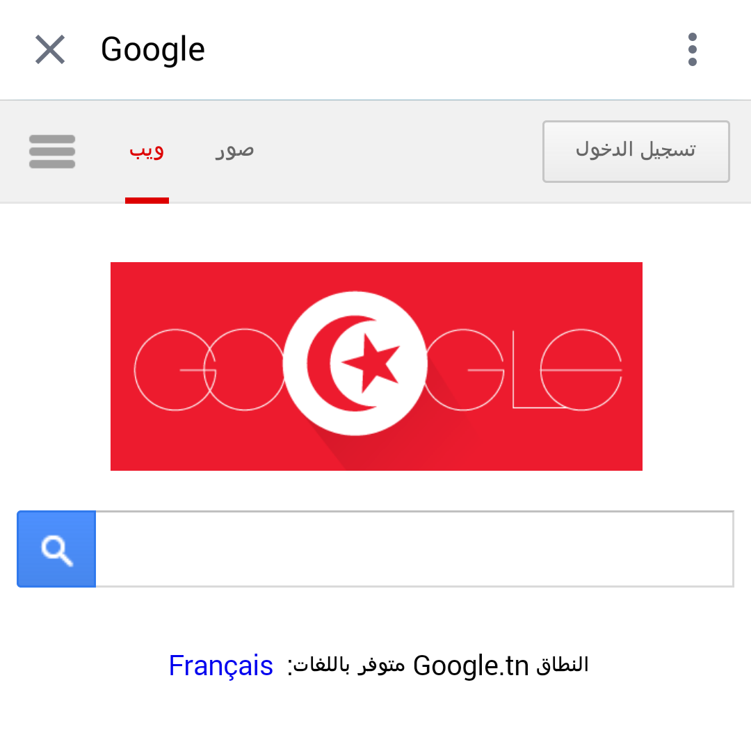 Screenshot of Arabic Doodle for Tunisian Independence Day